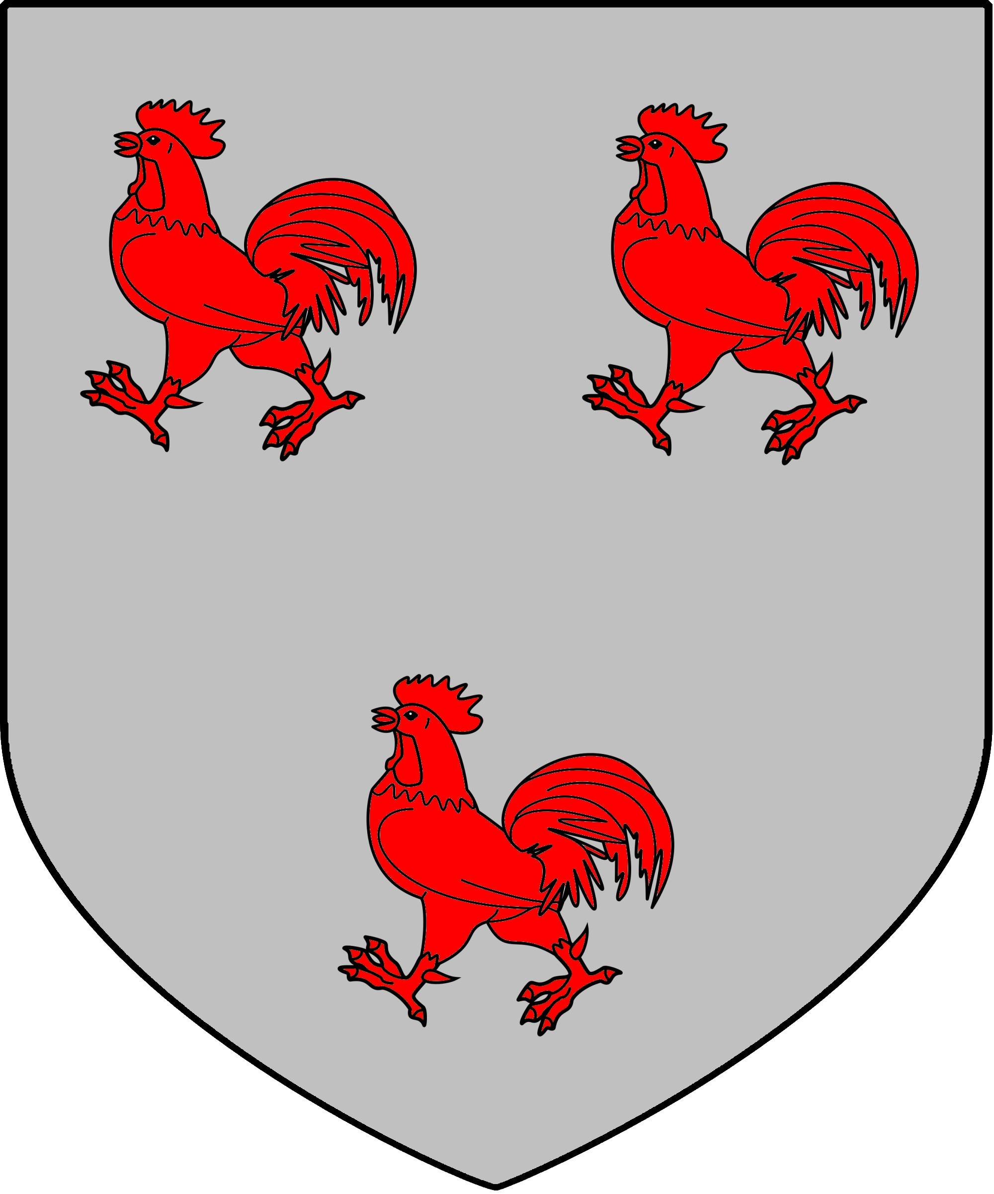 Cockayne Coat of Arms